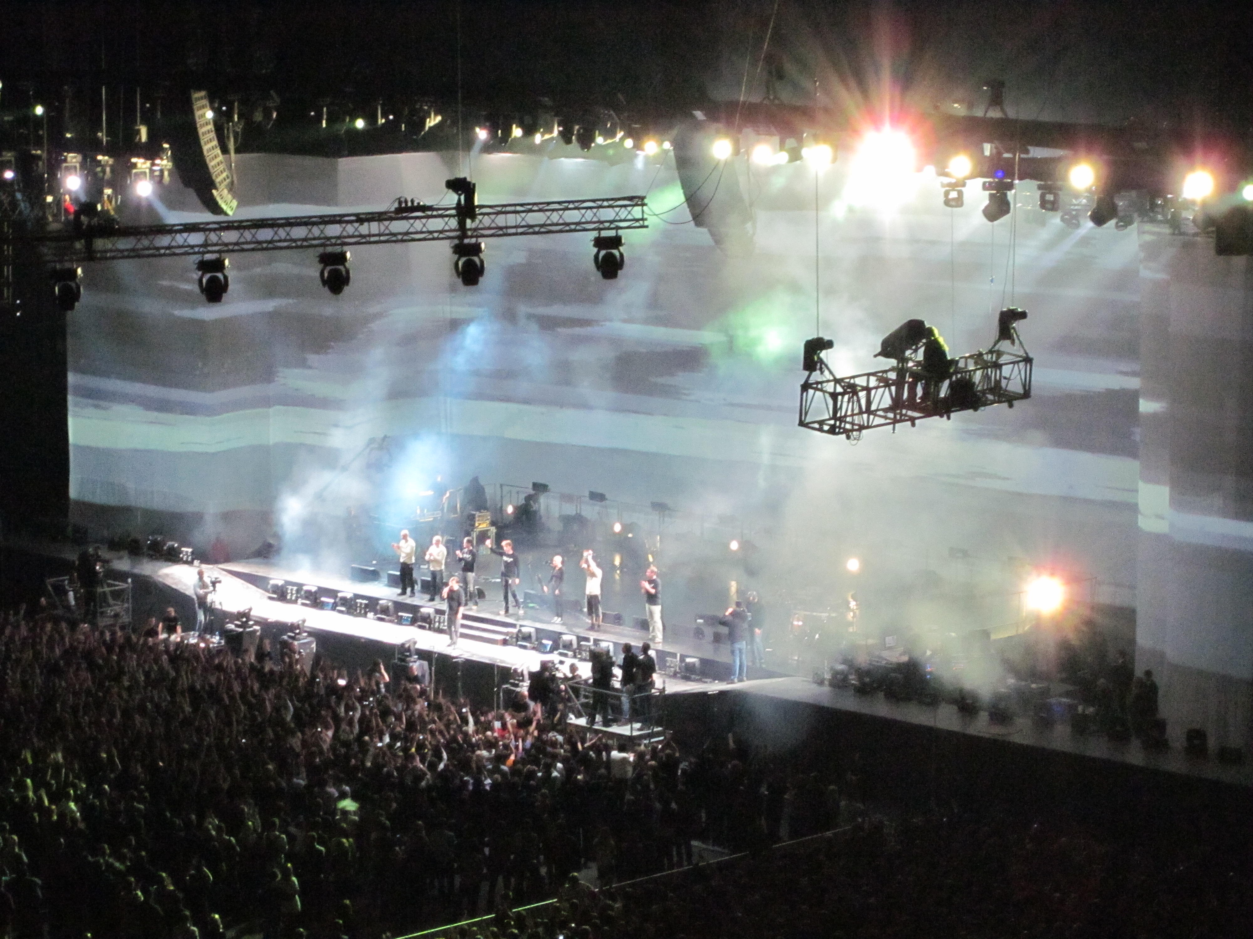 DDT during the Inache 2011 tour